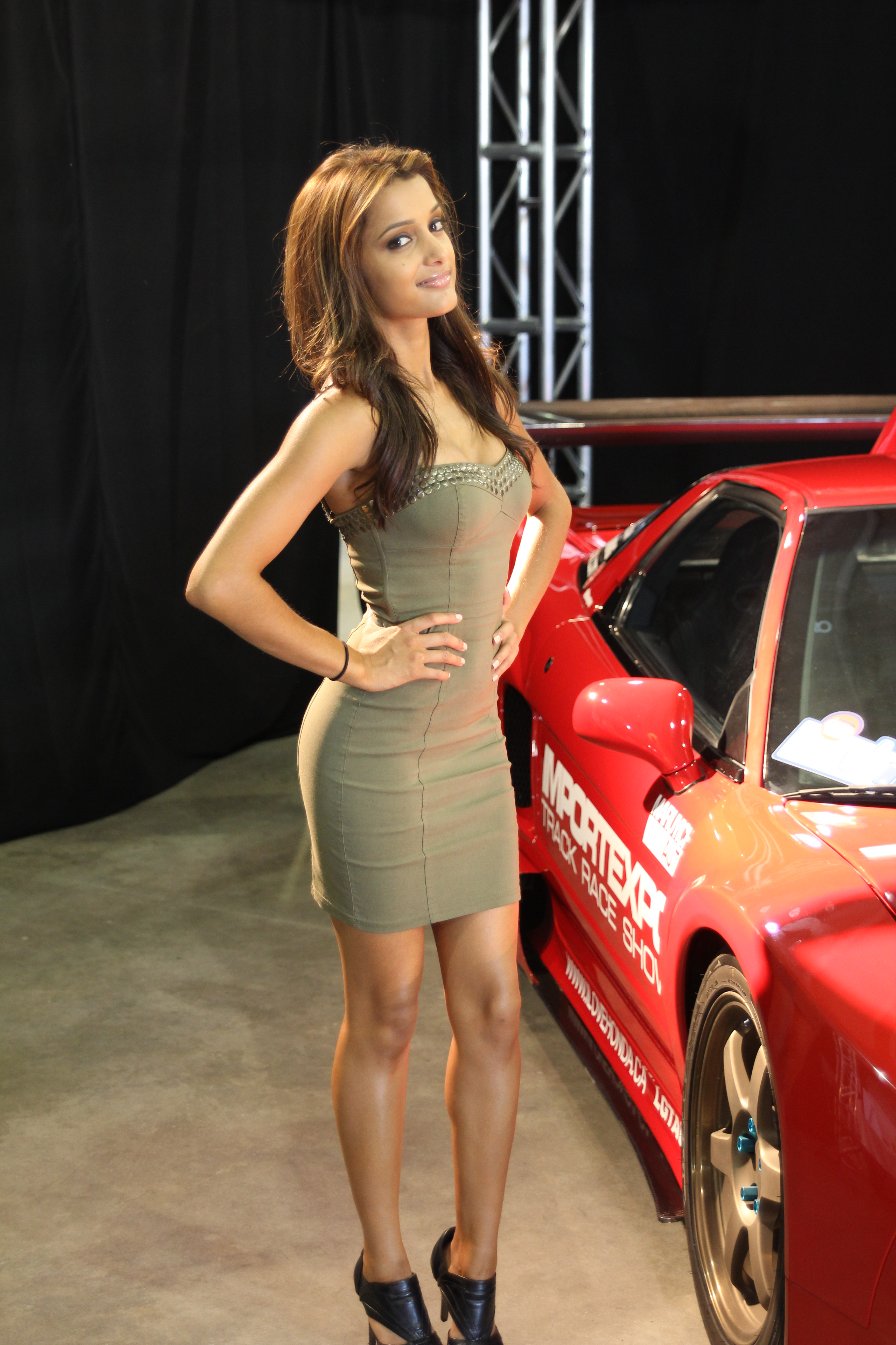 IMG_5490 IMPORTEXPO Track Race Show- July 23 2011.